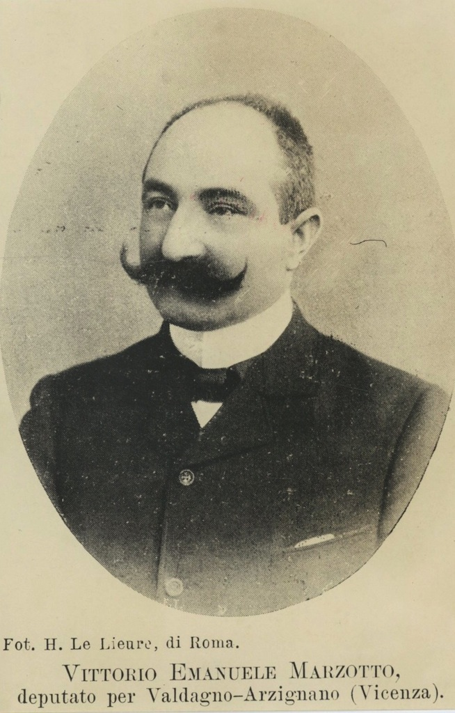 Vittorio Emanuele Marzotto sr (1858–1922). Below text: "Fot. H. Le Lieure, di Roma. VITTORIO EMANUELE MARZOTTO deputato per Valdagno–Arzigano (Vicenza)"